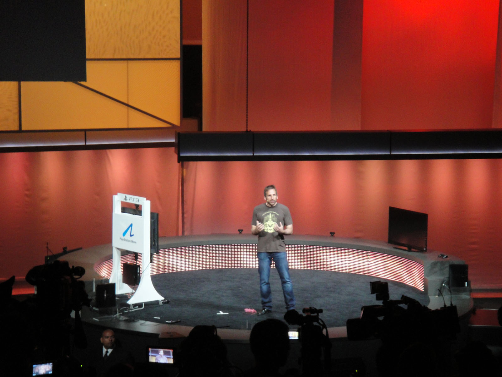 photo 2011 taken by Doug Kline If you're interested in higher resolution versions of my images, contact me via my profile page.